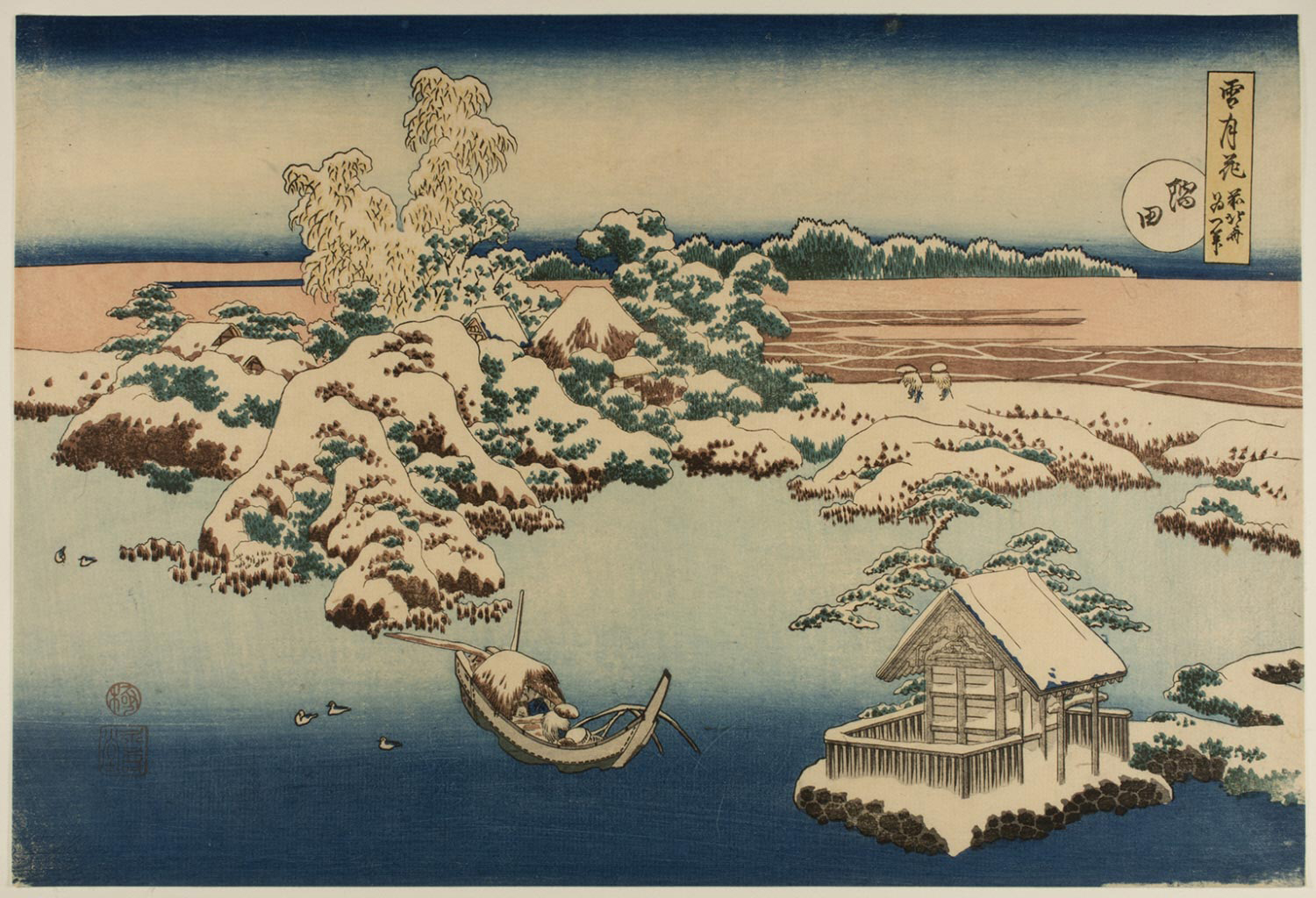 Coverd with snow at Sumida-river